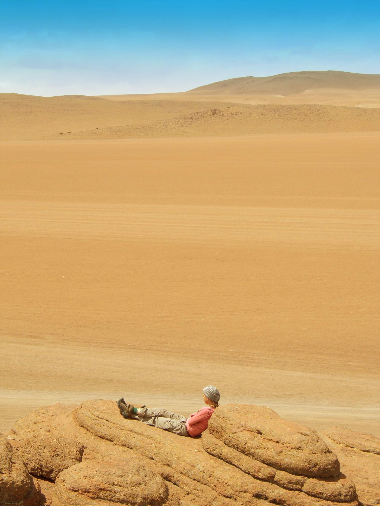 Jen in the desert in Bolivia.